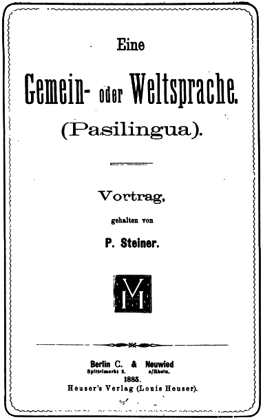 A cover of the book Pasilingua by Paul Steiner, screenshot taken from the e-book on the Internet Archive.